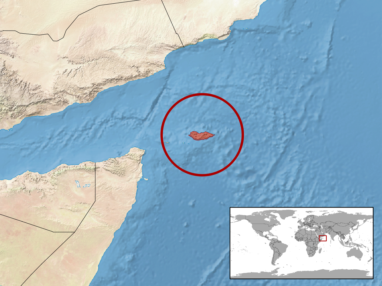 geographic distribution of Chamaeleo monachus (Native: Yemen (Socotra))